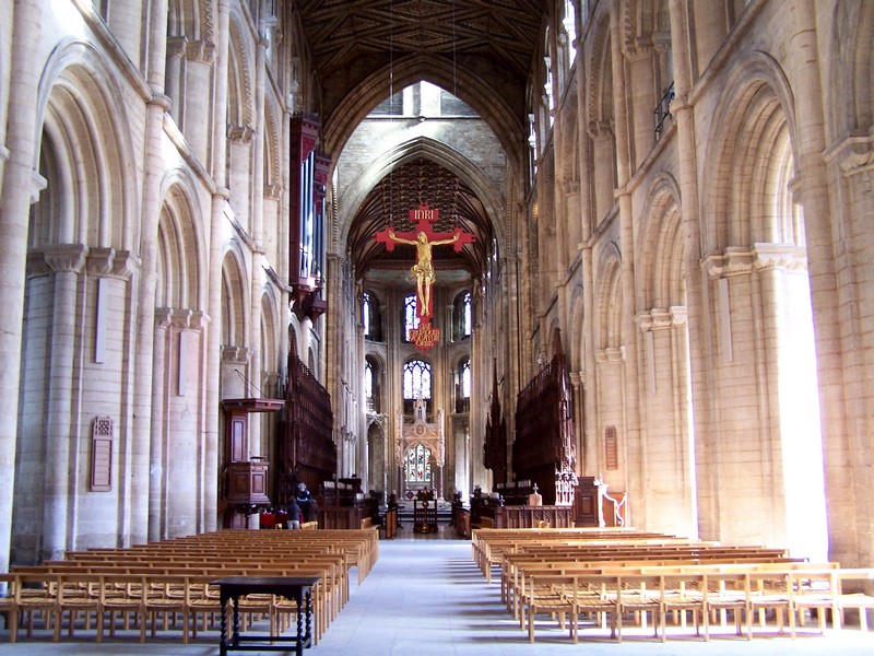 The Nave taken by kev747